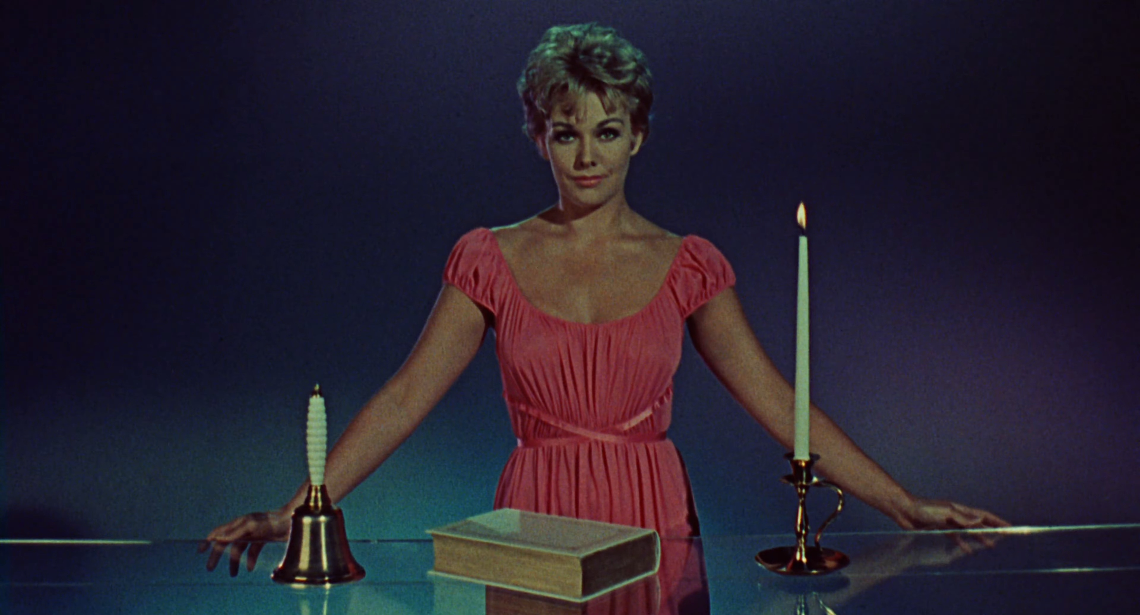 Screenshot from the original 1958 theatrical trailer for the film Bell, Book and Candle